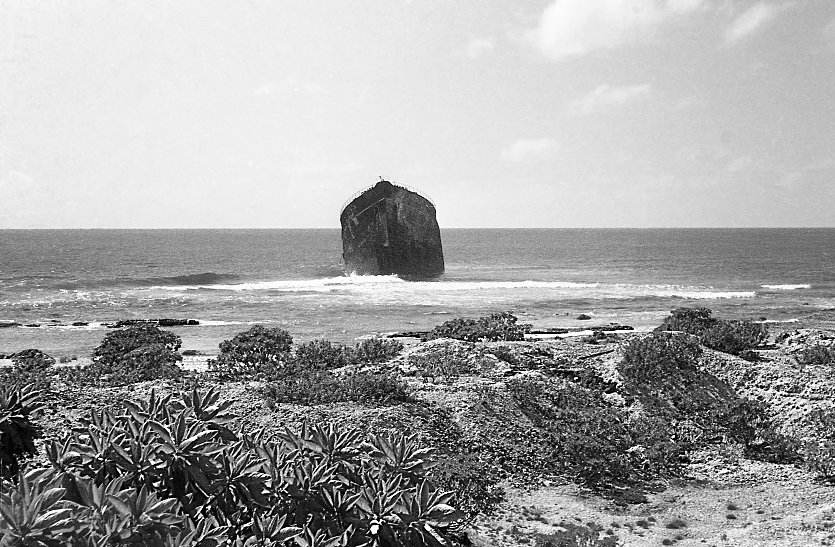 Photo of the wreck of the Japanese merchant ship Suwa Maru. It was beached after being torpedoed by American submarine USS Tunny in 1943. Ship was attempting to bring supplies to the Japanese Army on Wake Island.